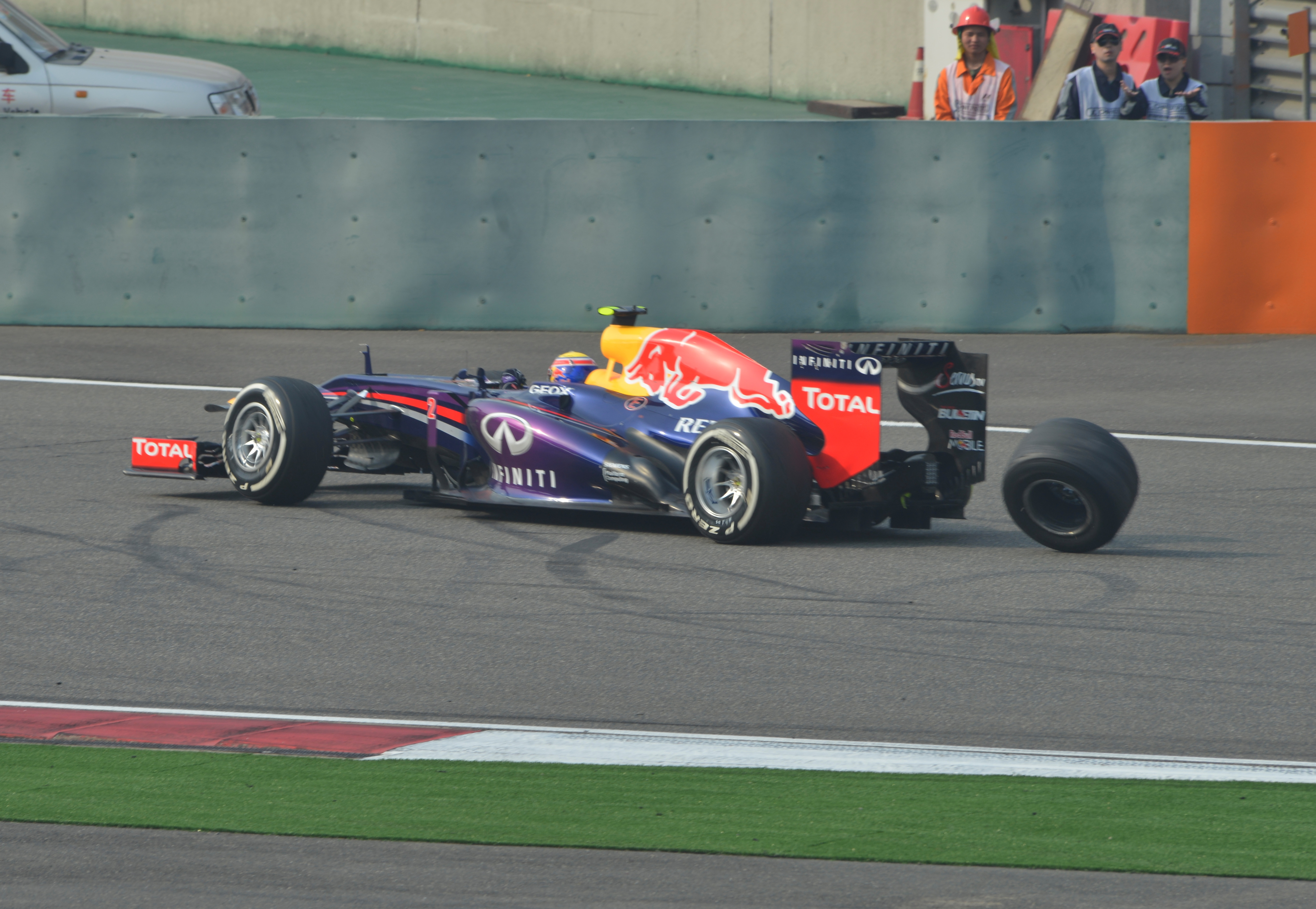 Mark Webber and his lost wheel